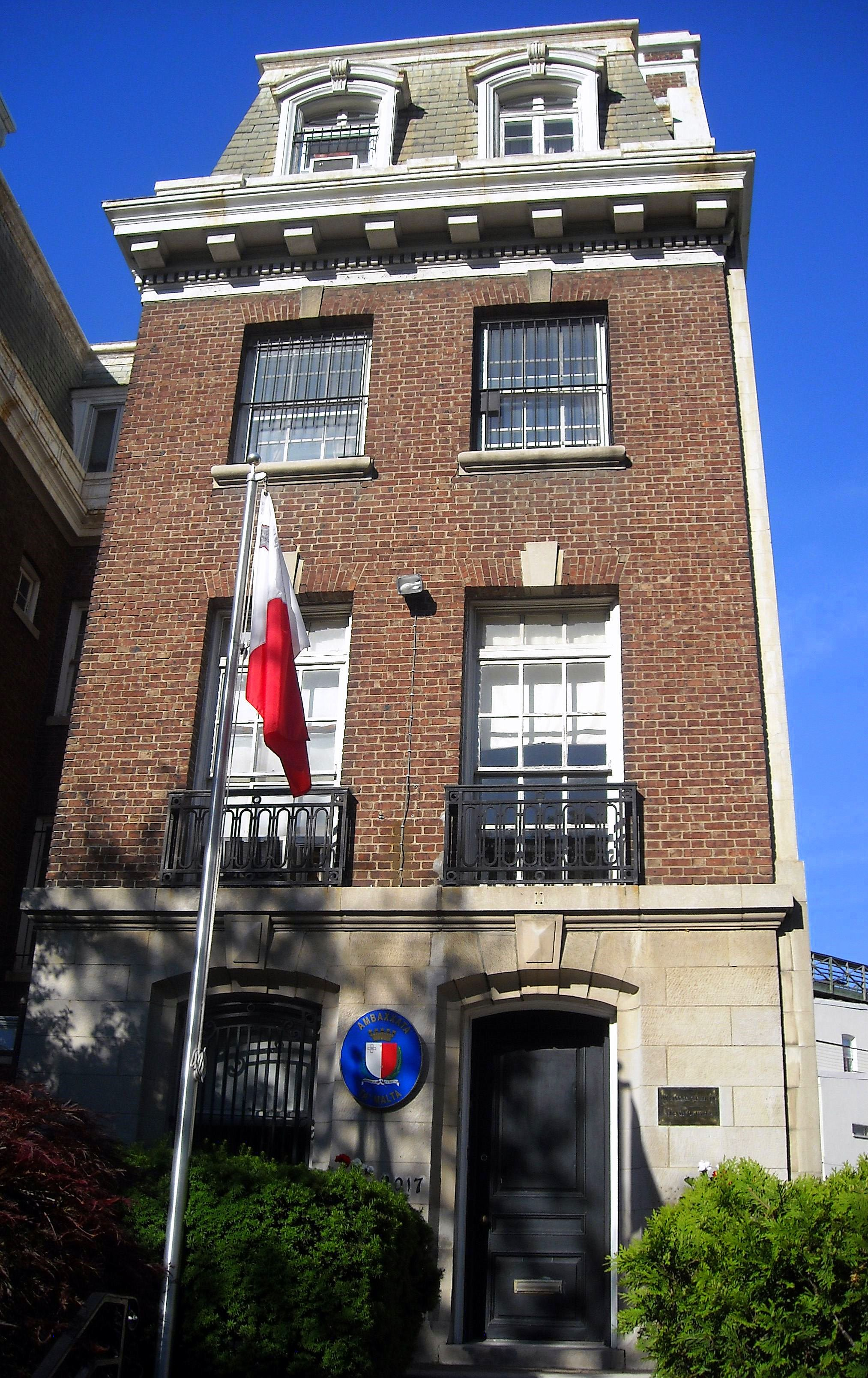 The Embassy of Malta located at 2017 Connecticut Avenue, N.W., in the Kalorama neighborhood of Washington, D.C. Built in 1903 to the designs of noted architect Waddy B. Wood, 2017 and 2019 Connecticut Avenue (historically known as the Wood-Deming Houses) are examples of Colonial Revival architecture. The Embassy of Malta is designated as a contributing property to the Kalorama Triangle Historic District, listed on the National Register of Historic Places in 1987.